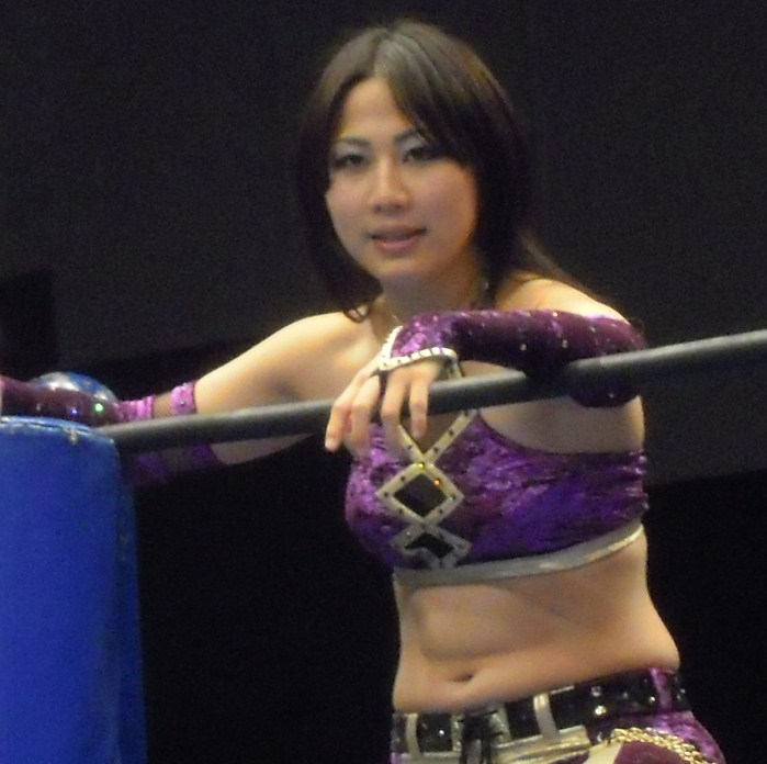 Japanese professional wrestler,Mio Shirai. Dec 26 2010, Ice Ribbon Korakuen Hall.